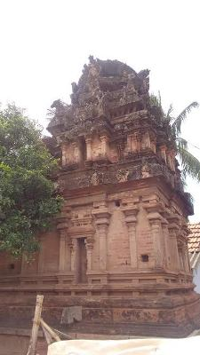 Thanjavurveerabadrartemple தஞ்சாவூர் வீரபத்திரர் கோயில் விமானம்